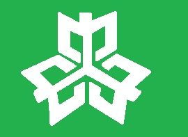 Flag of Yahaba Iwate